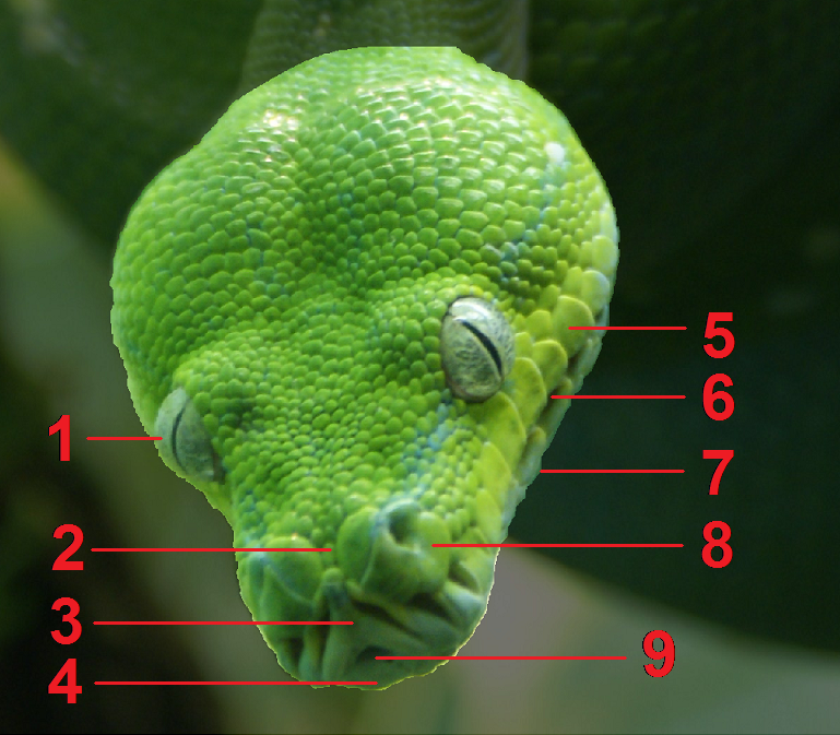 Green tree python Morelia viridis